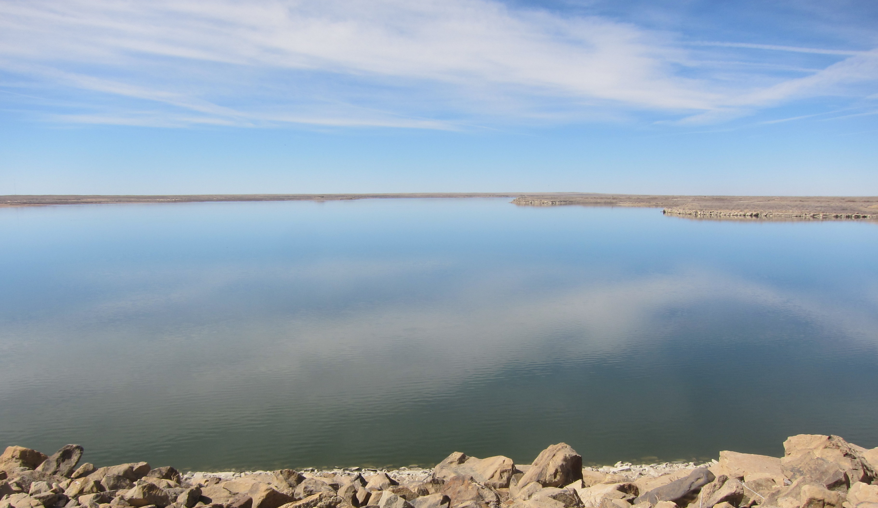 This view is from the top of John Martin Dam facing west over the body of the reservoir. The content of the reservoir in this picture was approximately 45,000 acre-feet.